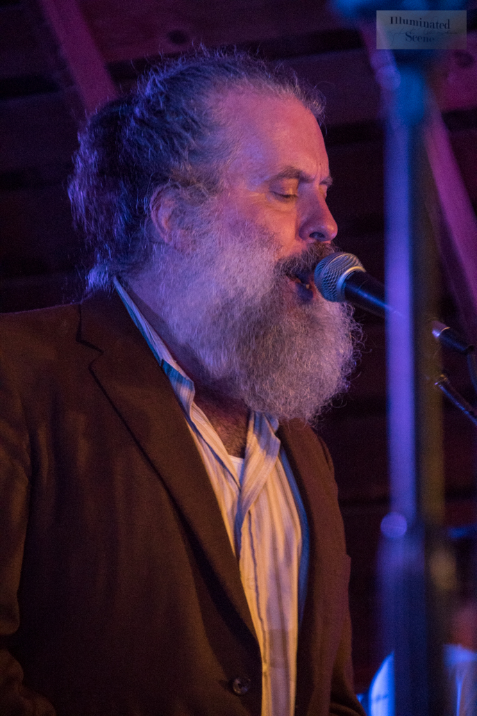 Miracle Legion at Codfish Hollow, Maquoketa, IA 7/23/16